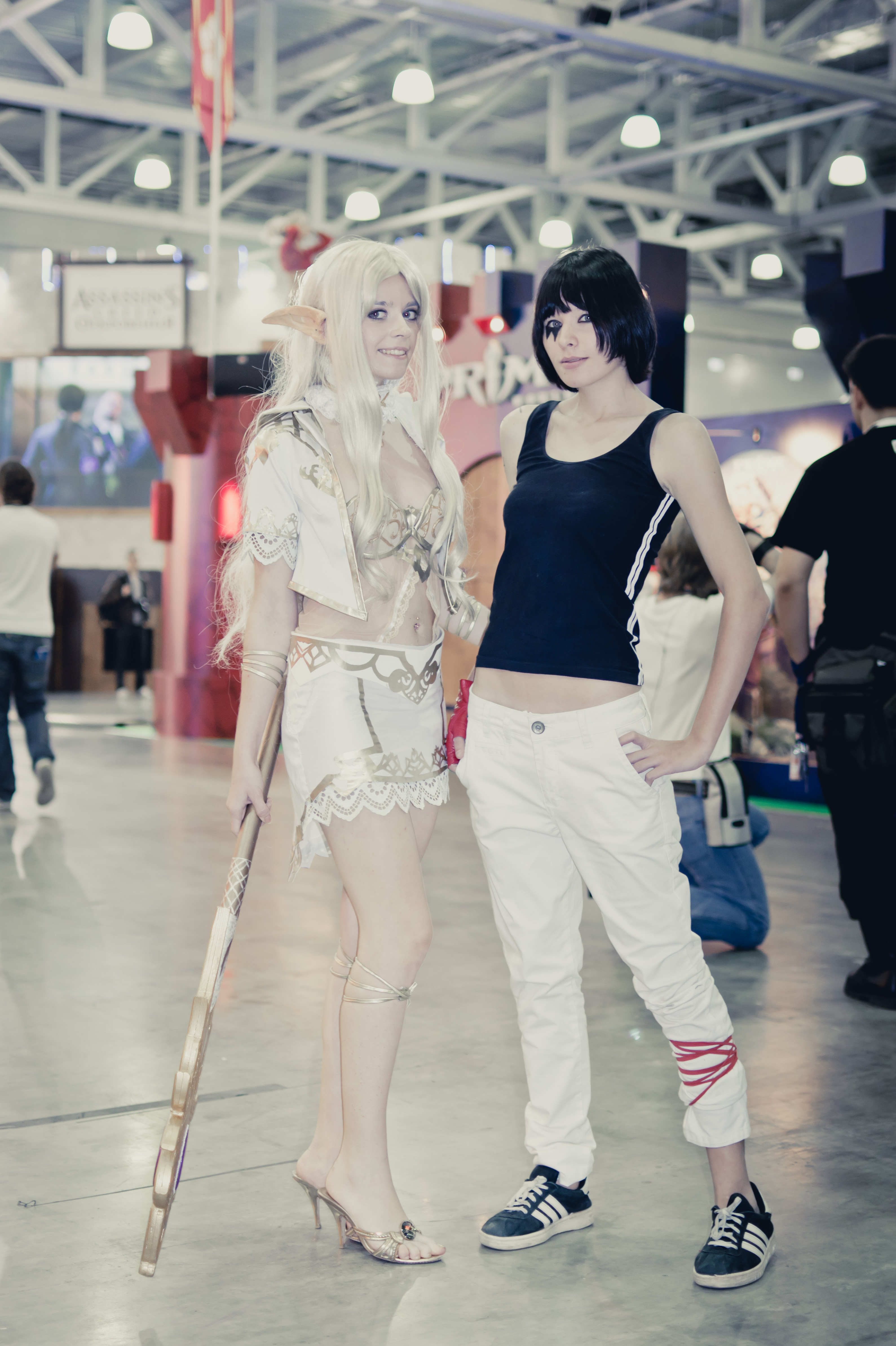 Taken on October 6, 2011 Nikon D5100